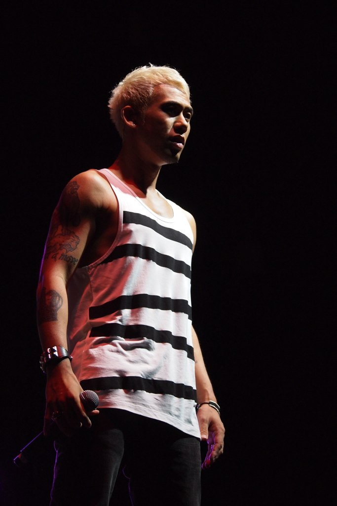 Chemistry Concert at Otakon 2011 - 16